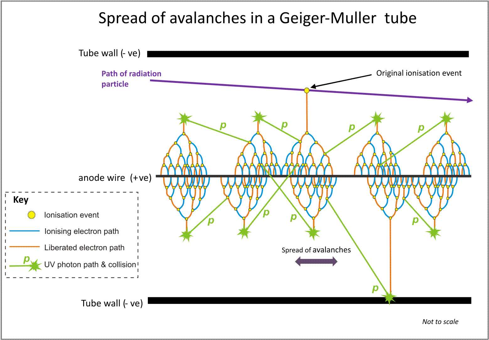 Visualisation of the spread of Townsend avalanches in a Geiger-Muller tube. In a Townsend avalanche, UV photons are created, which may be re-absorbed elsewhere to create a further secondary electron. The photons are not afftected by the electric field, so the chain reaction can spread.